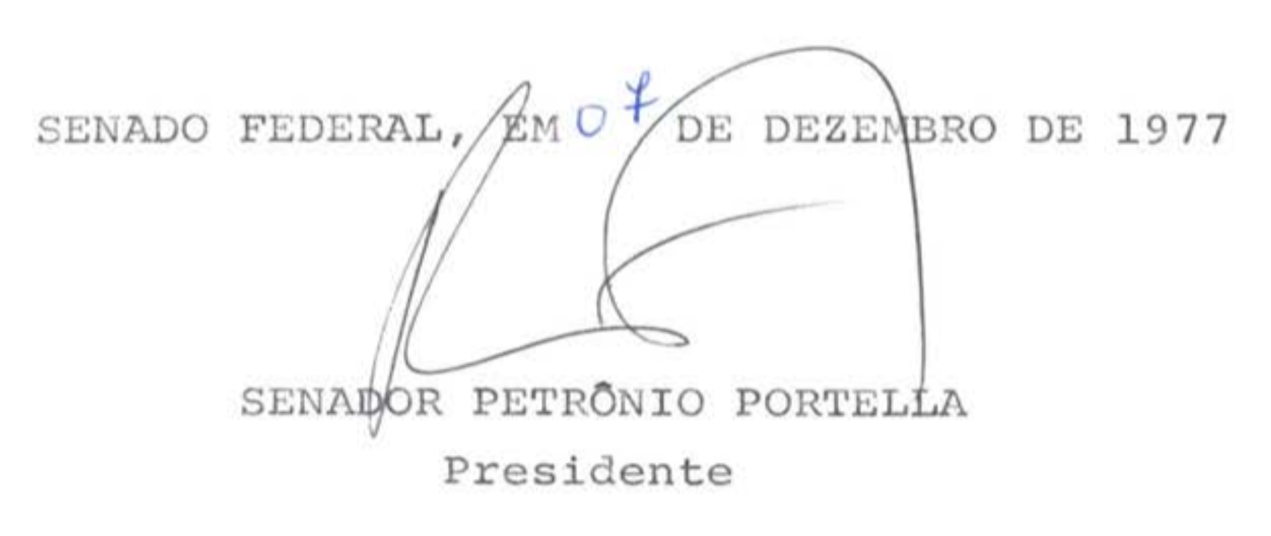 Petrônio Portella signature.